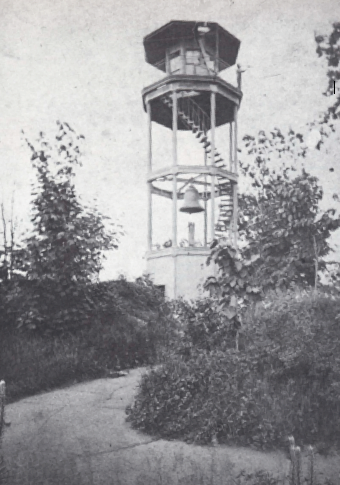 Harlem Fire Watchtower, architect, Julius Kroehl, depicted in 1857 year of first erection, located in Mount Morris Park, Harlem, New York, showing steps, bell, copper roos, landscape path up rocky promontory